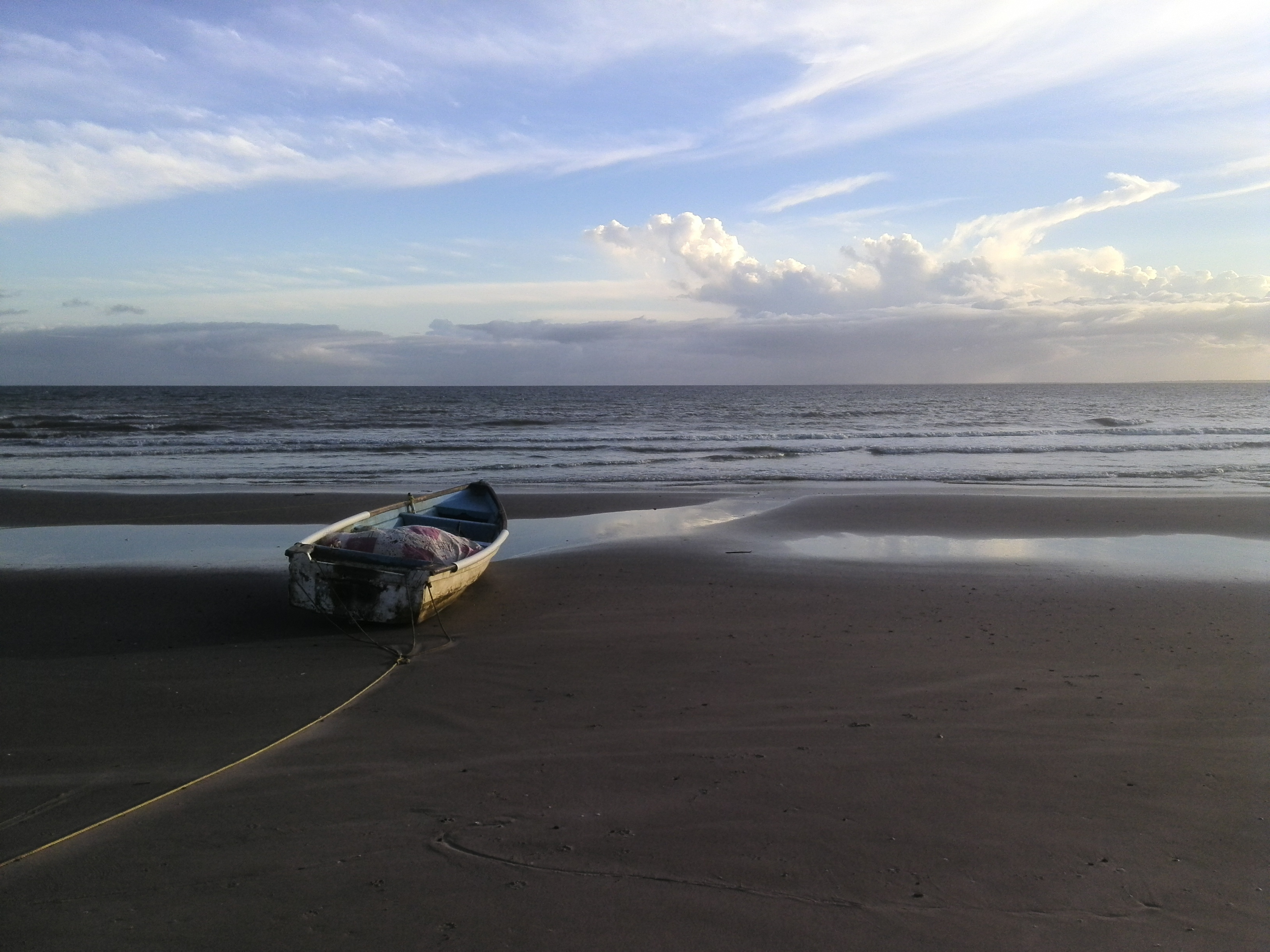 Icacos Beach, Icacos, Siparia, Trinidad and Tobago. Overlooking the Boca de la Serpiente (Columbus Channel), the strait between the Atlantic Ocean and the Gulf of Paria. Too far away to see: Venezuela.